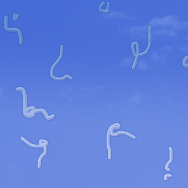 Floaters in the premacular bursa